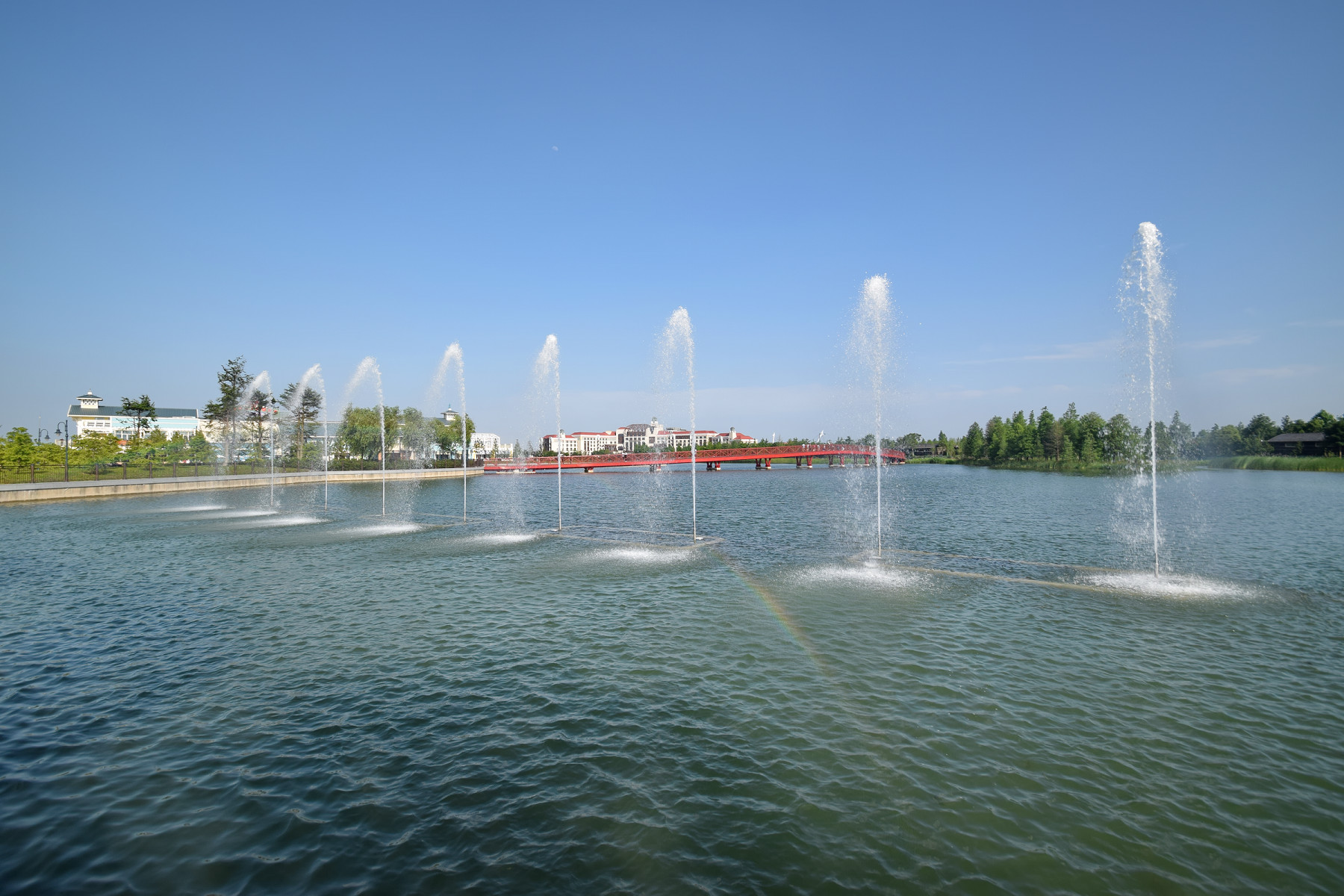 Wishing Star Park / Wishing Star Lake, Shanghai Disney Resort